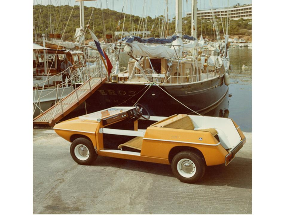 From the Enfield Automotive, Electricity Council and Constantine Adraktas archives.